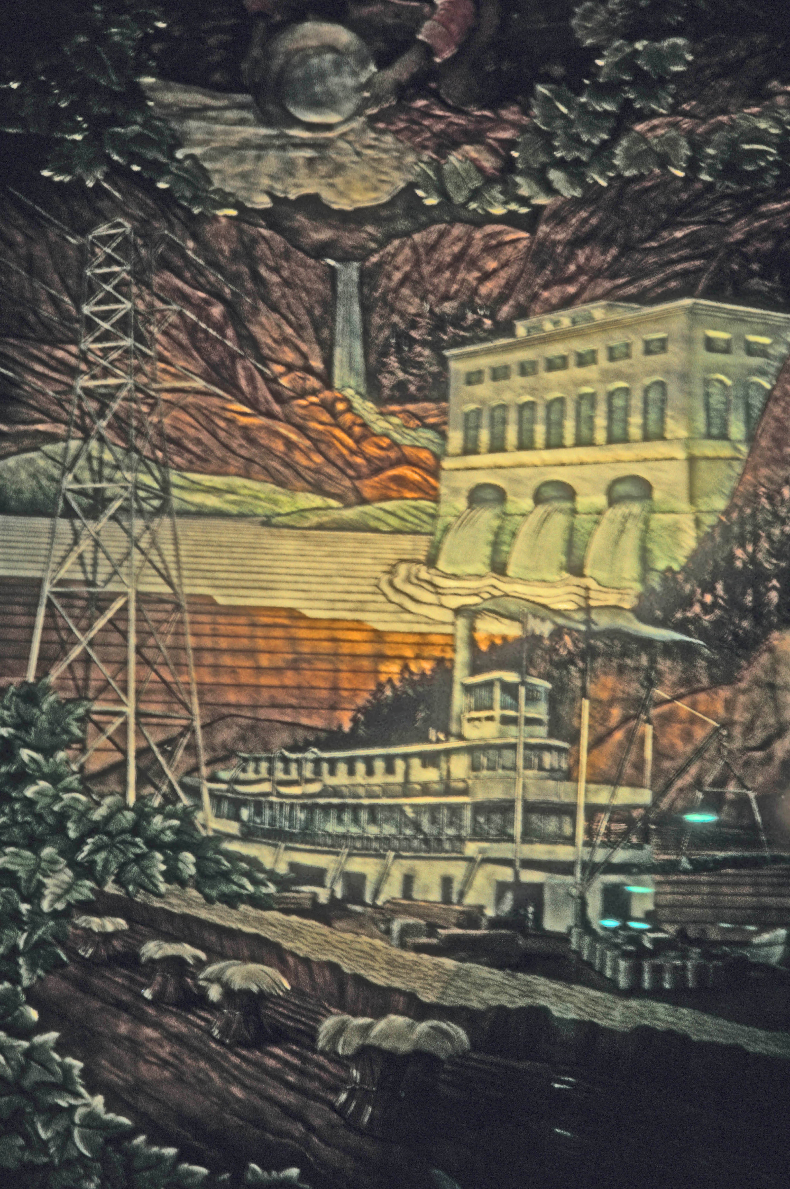 THIS IS ONE OF THE MURALS LOCATED BY THE STAGE DONE BY ANTHONY HEINSBERGEN AND FRANK BOUMAN